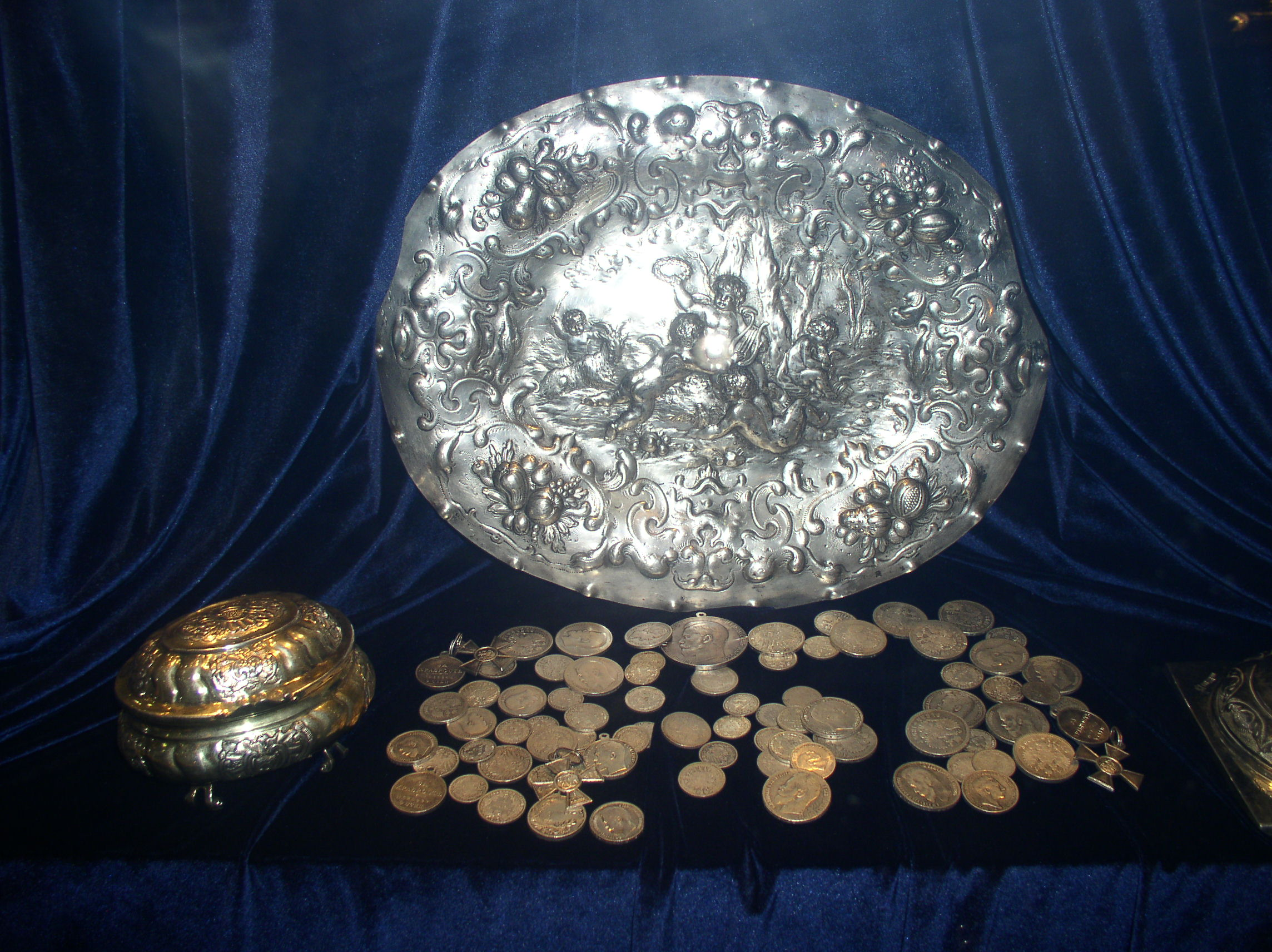 Silver collection. National museum of history and culture of Belarus. Karl Marx street, 12. Minsk, Belarus.